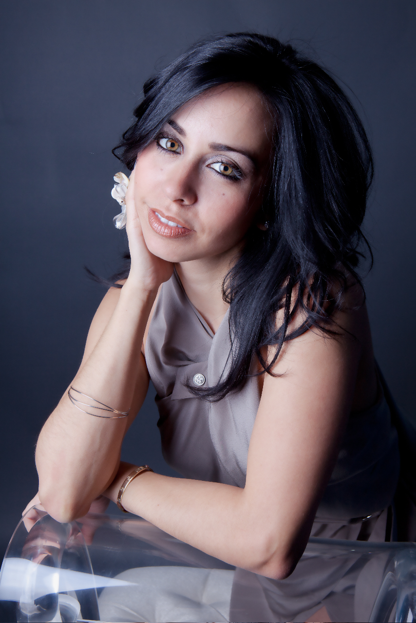 This photo is a head shot of Vanessa DeLeon. It will be uploaded to her Wiki page.